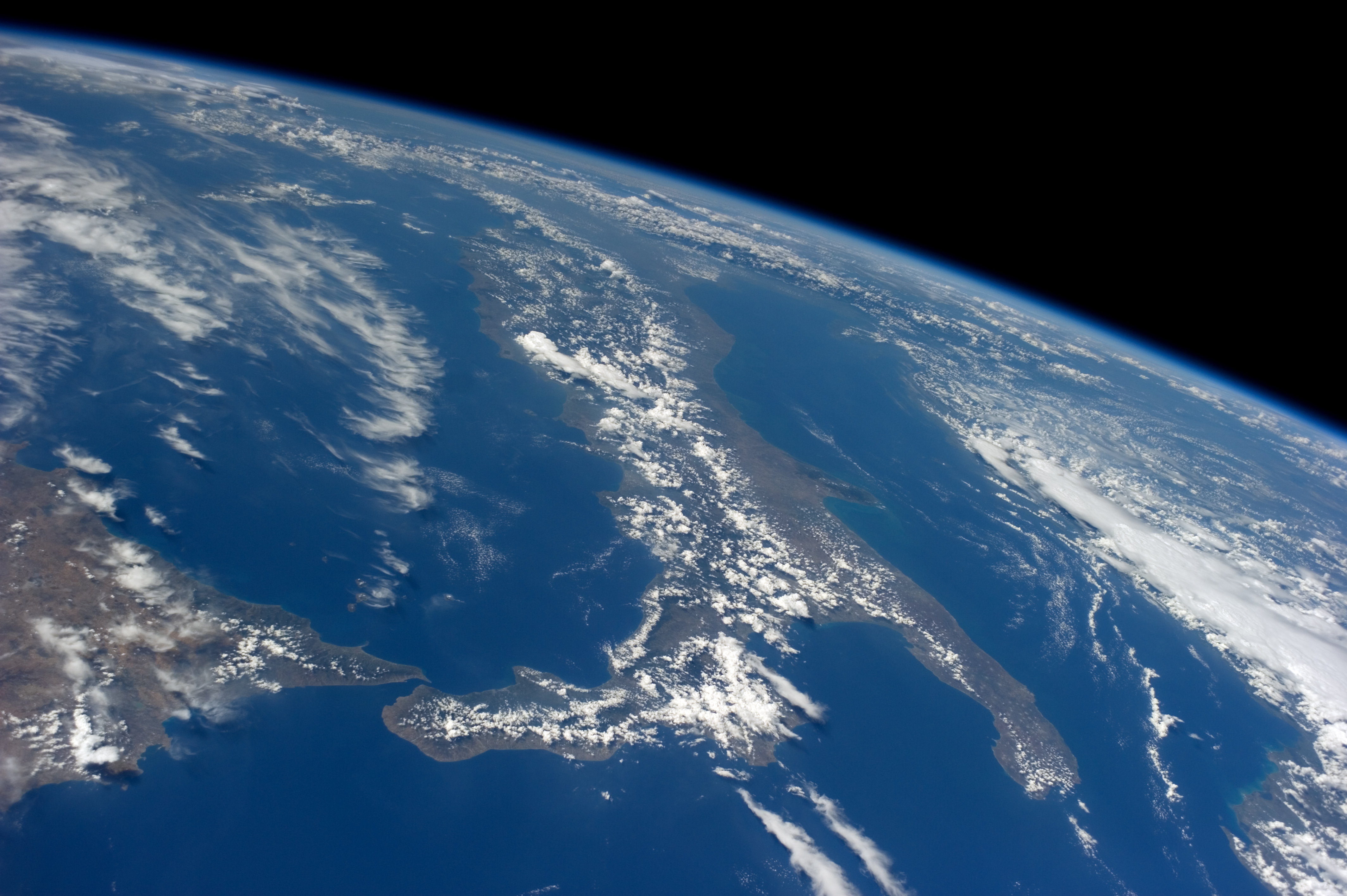 Collections of clouds hug Sicily (lower left) and Italy, which runs vertically through the center of this oblique scene, exposed by one the Expedition 40 crew members aboard the International Space Station at an altitude of 221 nautical miles.